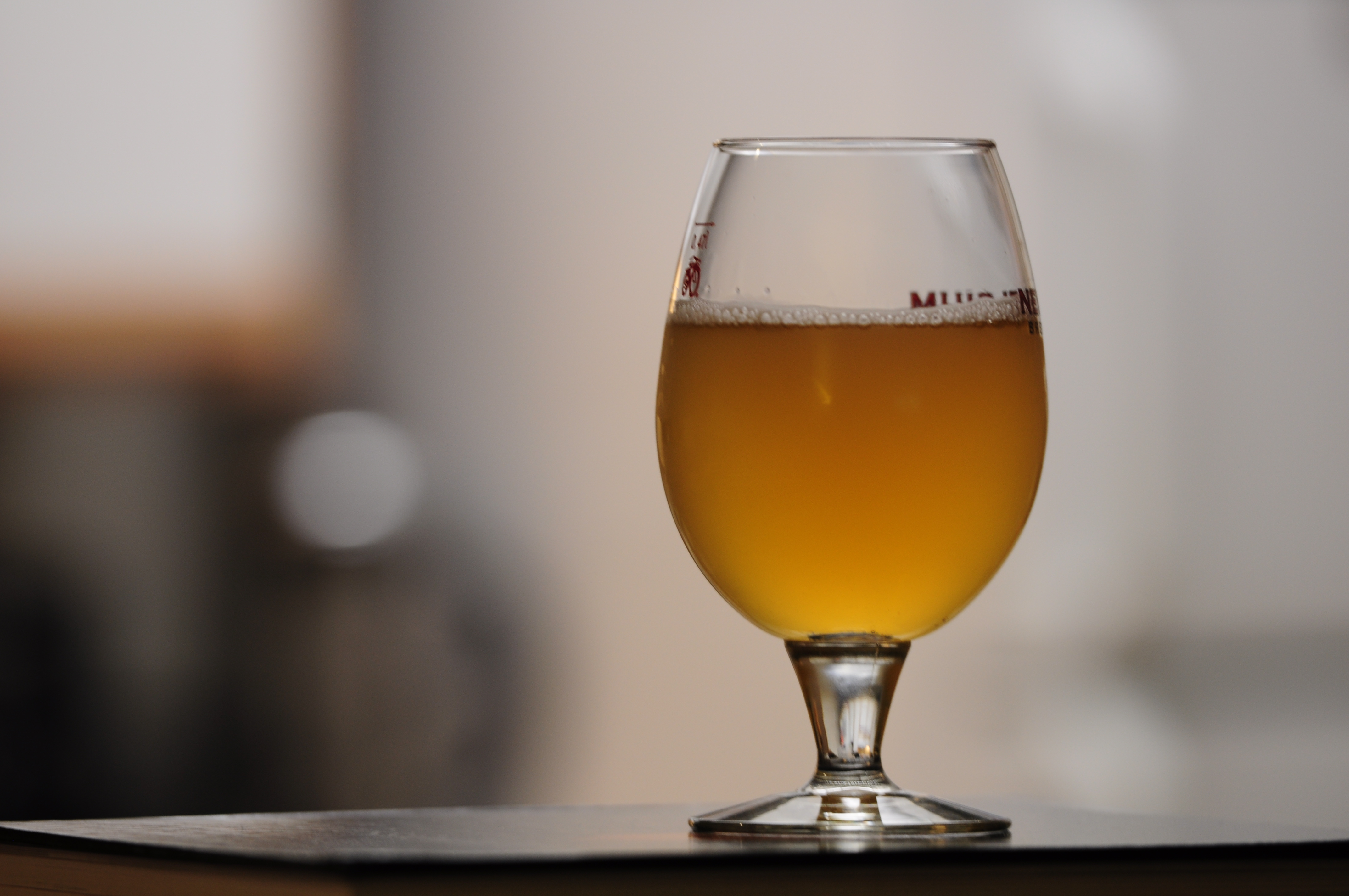 Picture of a glass of beer.